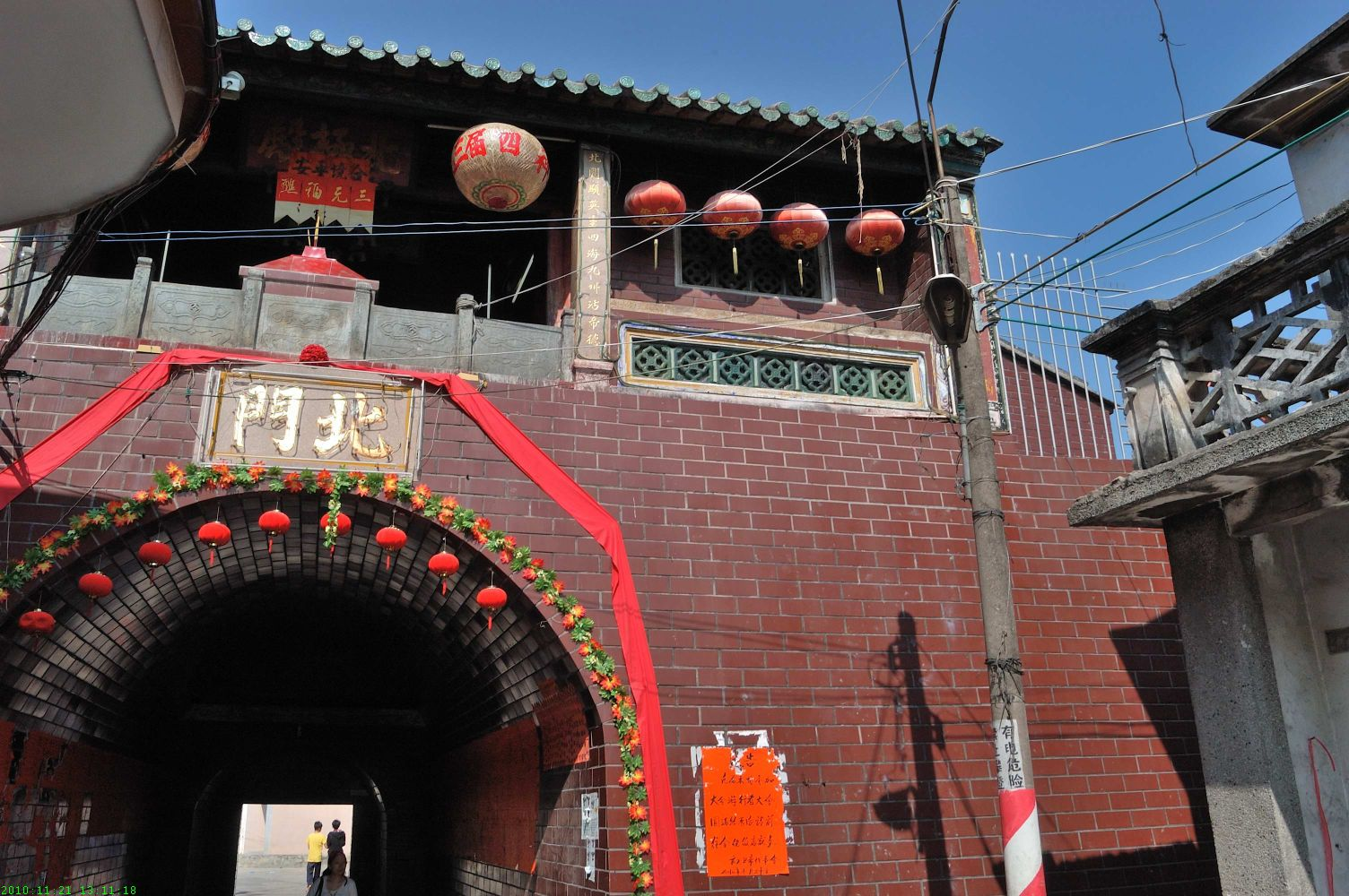 Ping Hai old town North gate